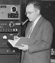 Ernest Wollan (not visible) and Clifford Shull taking data on a double-crystal neutron spectrometer, installed on the south face of the ORNL graphite reactor in 1949.